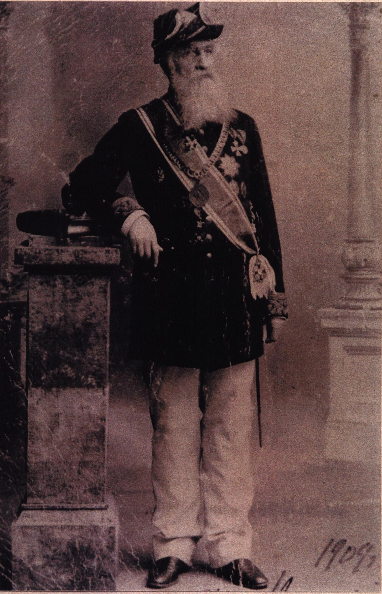 Wladislaw von Szeliga-Mierzeyewski